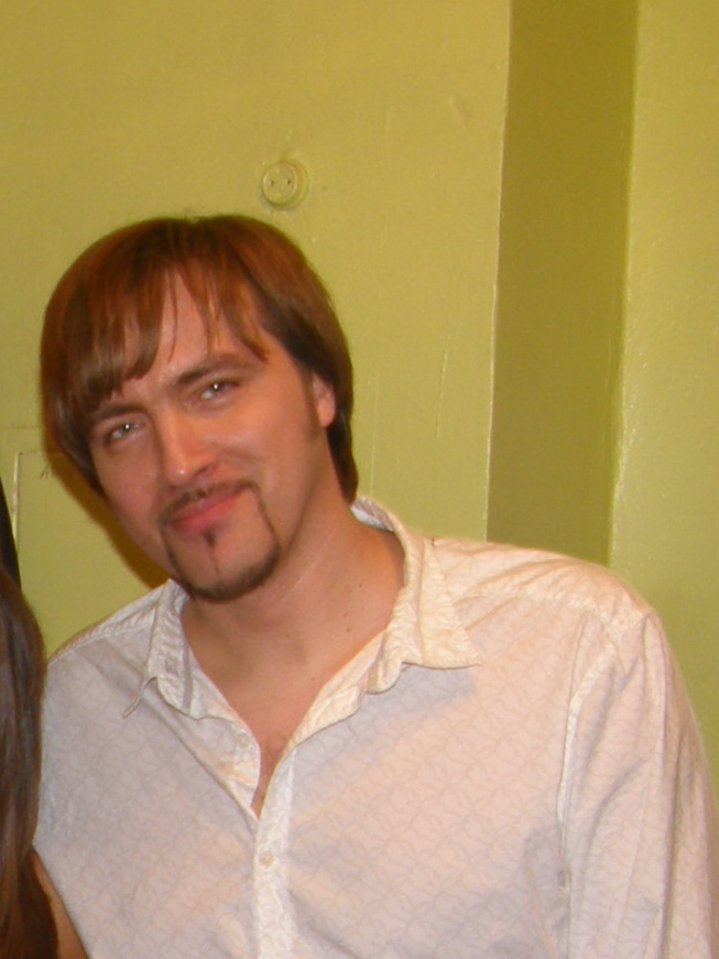 Atis Auzāns